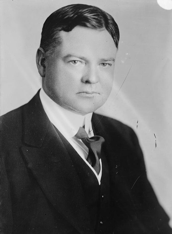 Herbert Hoover photo portrait from 1917.